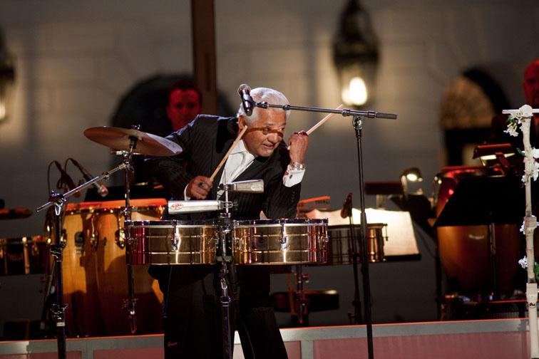 Percussionist Pete Escovedo performs at the "In Performance at the White House: Fiesta Latina," a concert celebrating Hispanic musical heritage held on the South Lawn, Oct. 13, 2009.